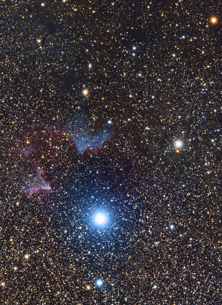 Ghost of Cassiopeia: IC59 + IC63 near Gamma Cas. DSLR Image Oct 13, 2015. New subs made, this time without the Gamma Cas halo (high cloud effect). 25x240 sec iso 1600, 30 flatframes, 65 bias frames. Canon 6D full spectrum on Skywatcher Esprit 100 Triplet APO with Optolong L filter. Processing in DSS and Pixinsight. SQM:20.7